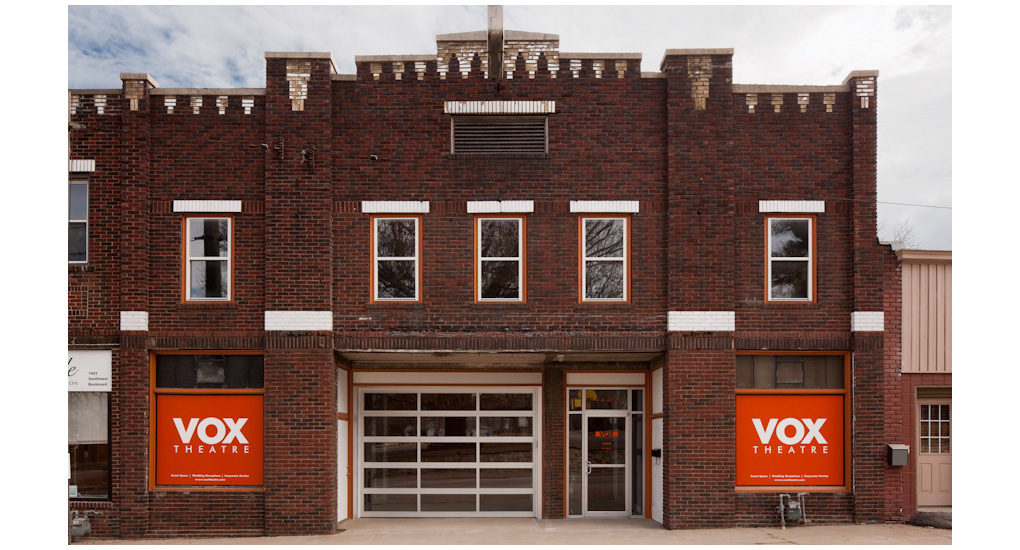 This is the current facade of the Vox Theatre